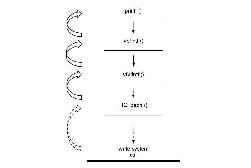 This image shows a higher I/O function calling the write system call